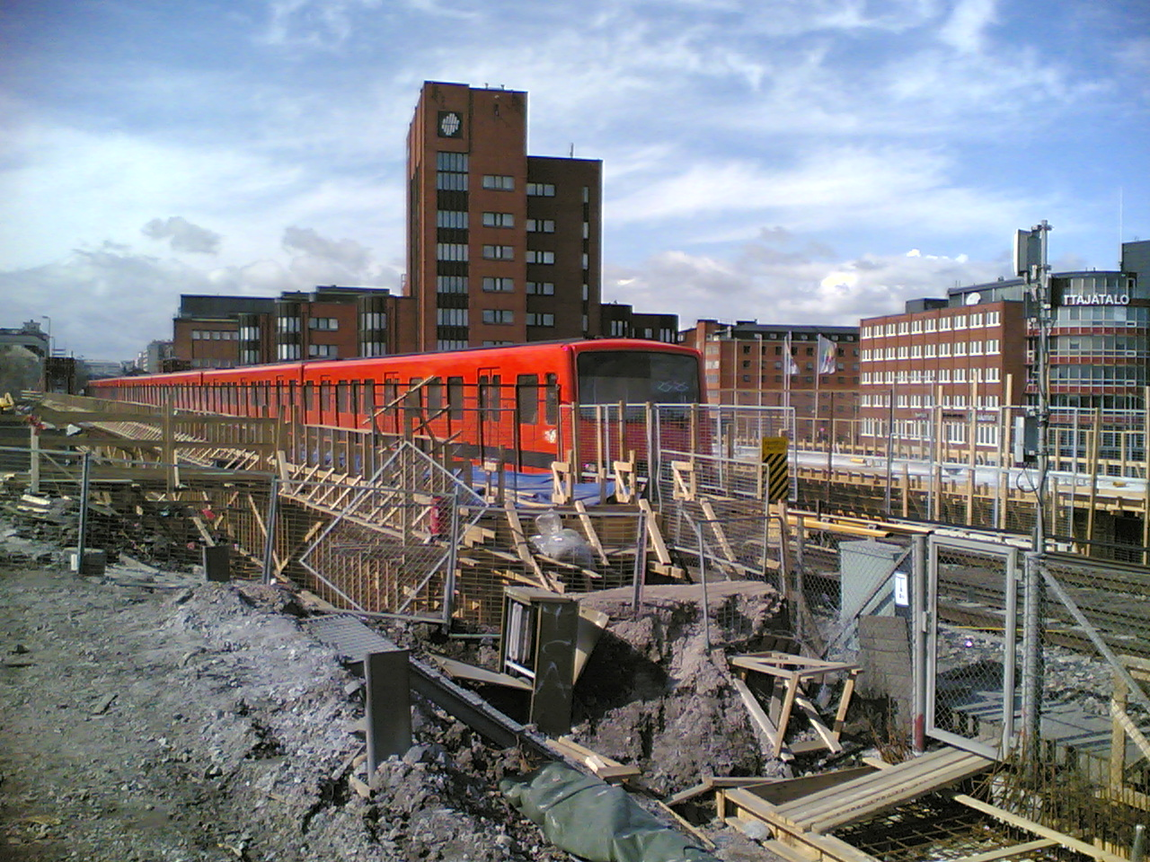 Kalasatama metro station in Helsinki, Finland.